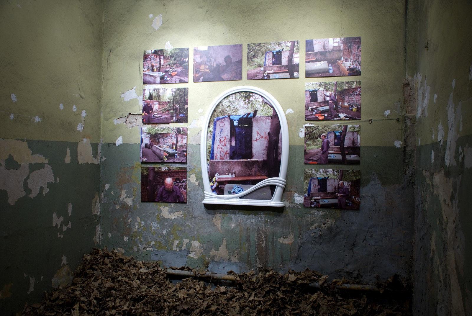 Now! Artists of Foto-Medium Art Gallery